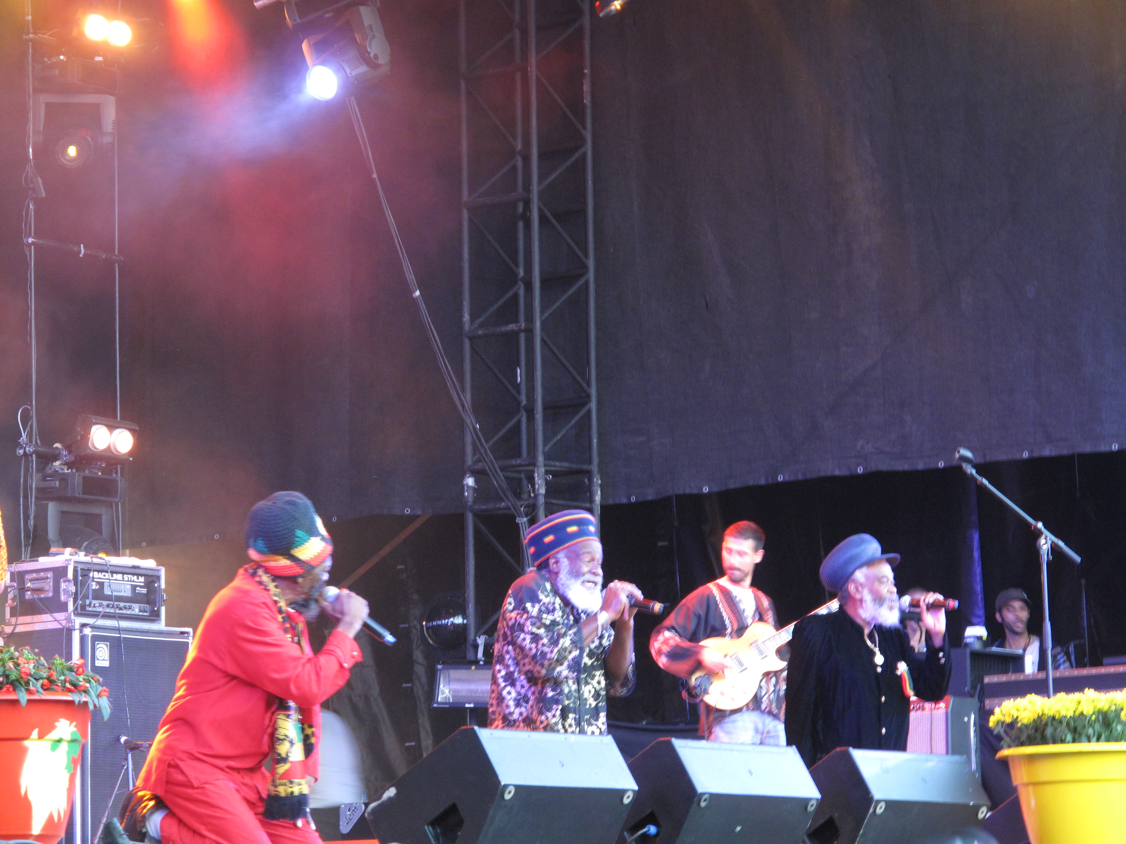 Photo by: Joakim Westerlund / Jessica Olander More photos from Uppsala Reggae Festival 2010